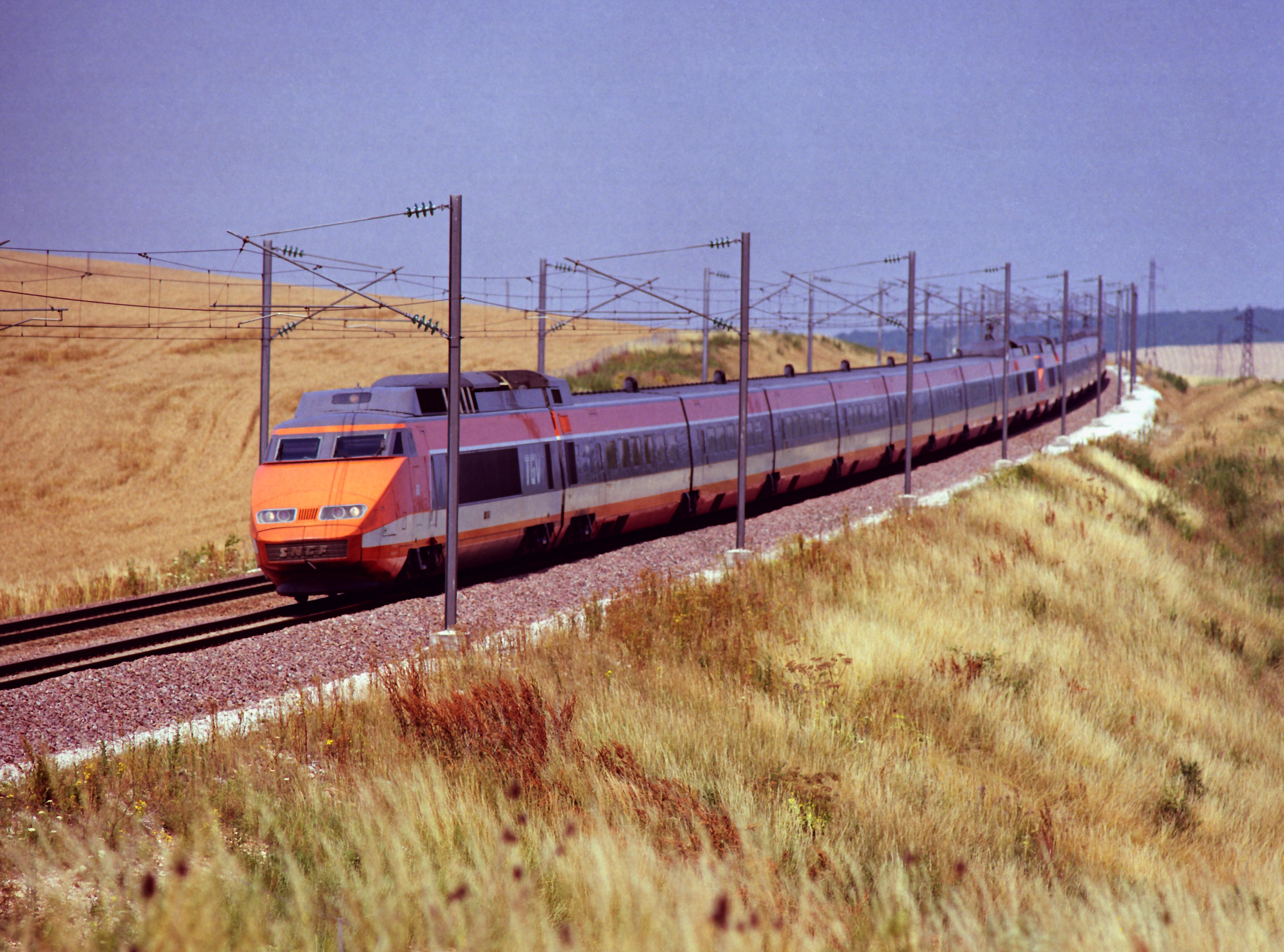 France July 1984 , the TGV on its way from Paris towards Dijon